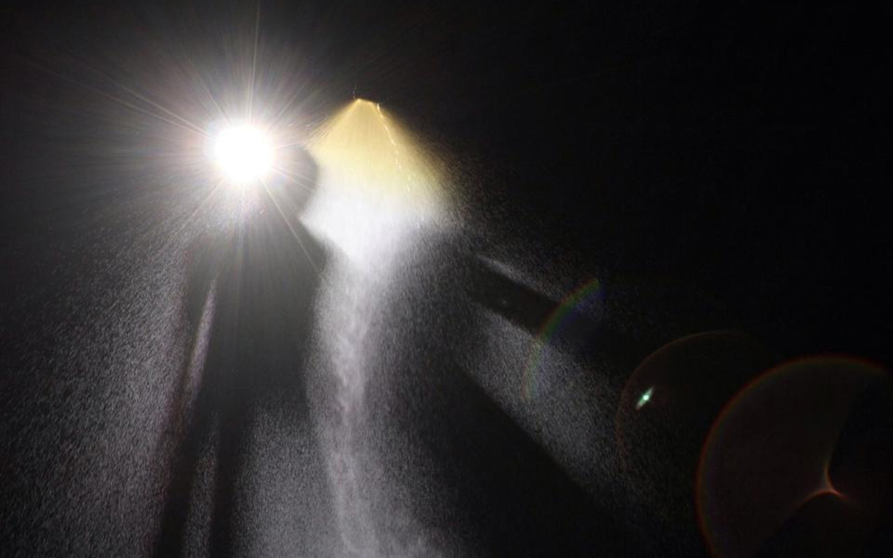 Installation by Kingsley Ng